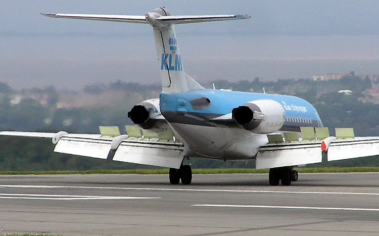 KLM Fokker 70 (PH-KZE) landing at Bristol Airport, Bristol, England. The airbrake flight controls are the raised cream-coloured panels on the wing upper surface. Taken by Adrian Pingstone in August 2004 and released to the public domain.